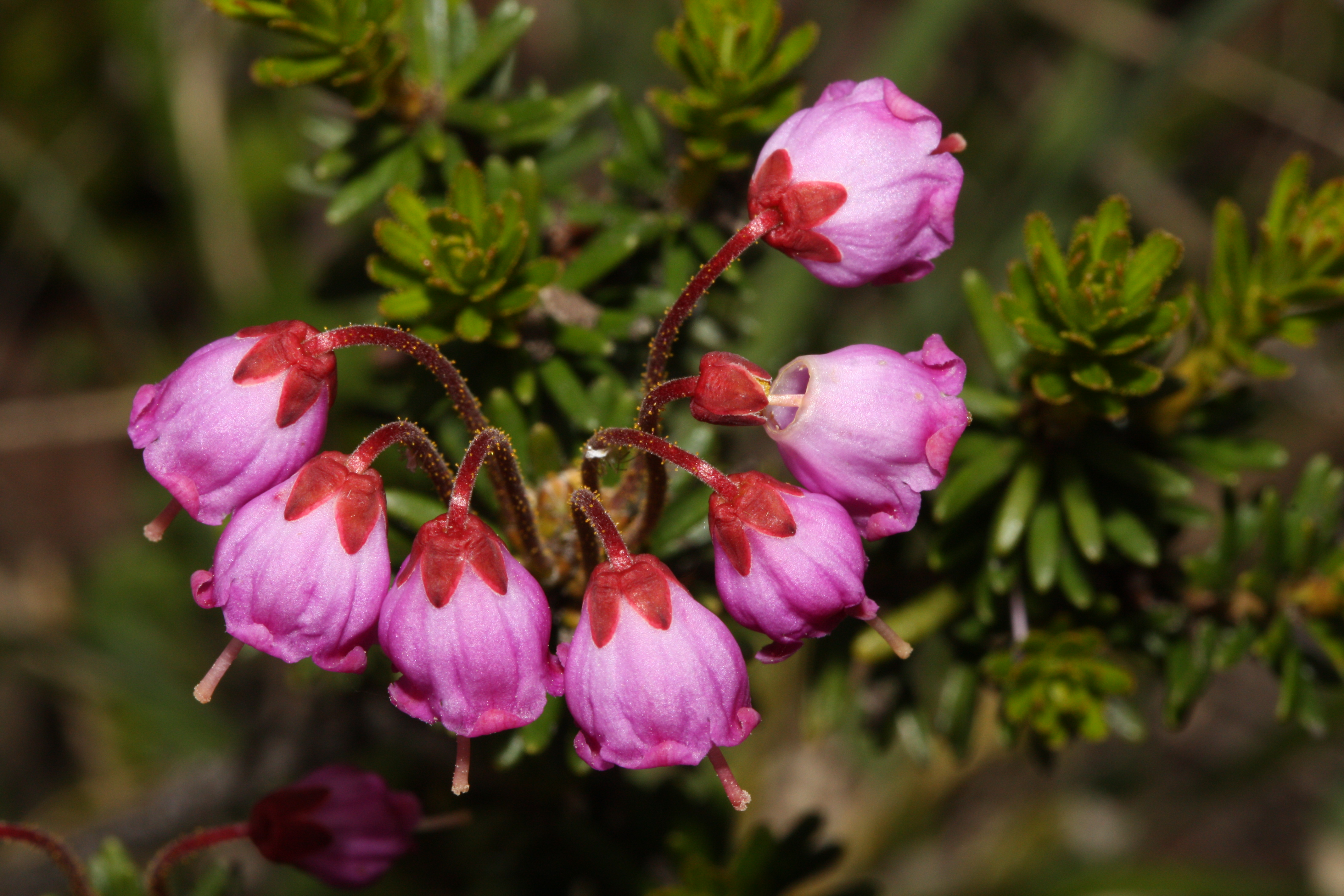 Pink Mountainheath